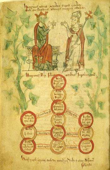 King Henry II argues with Thomas Becket. In 1162 King Henry II persuaded his Chancellor Thomas Becket, to become Archbishop of Canterbury, although Becket warned him that his chief loyalty would then be to the Church and not to the king. They disagreed about many matters. One of the most important was whether clergy who had broken the law could be tried in the King's courts or whether they could appear only before the Church courts. Eventually in 1170 Becket was murdered by three of the King's knights and Henry was blamed. This is taken from 'Peter of Langtoft, Chronicle of England'. This manuscript was probably written and pictures added during the reign of Edward II (1307-1327).